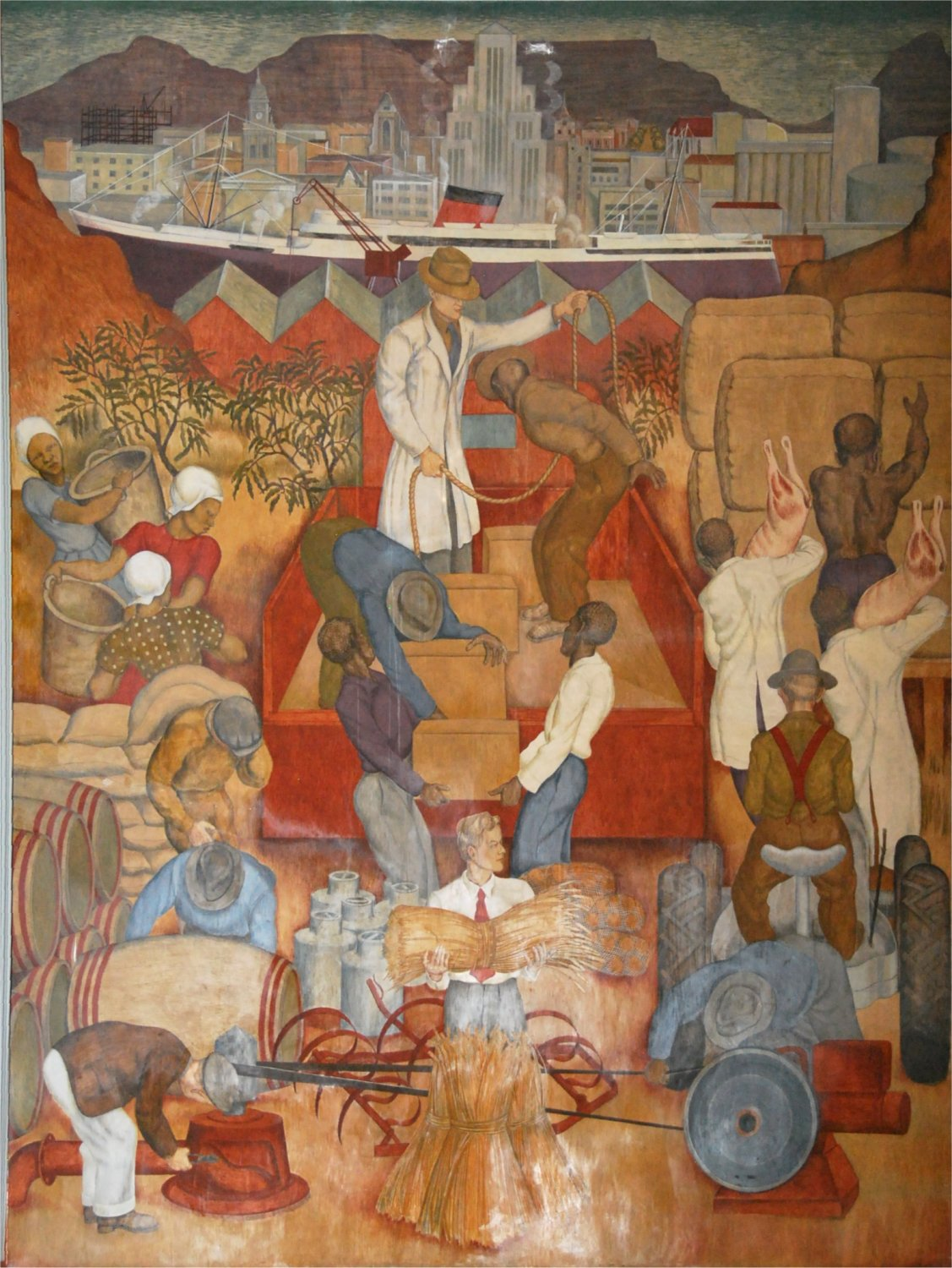 A panel from the frescoes in the Assembly Room, Mutual Building, Darling Street, Cape Town, painted by Le Roux Smith Le Roux 1942